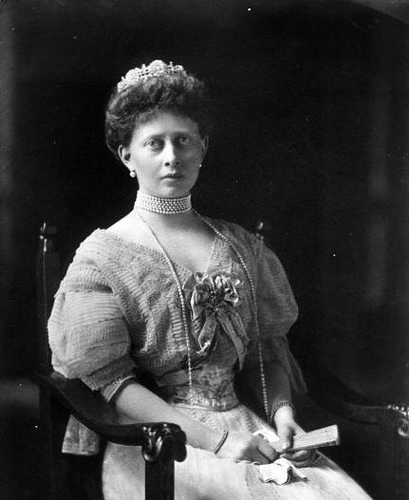 Princess Margaret of Prussia, later Princess anf Landgravine Frederick Charles of Hesse